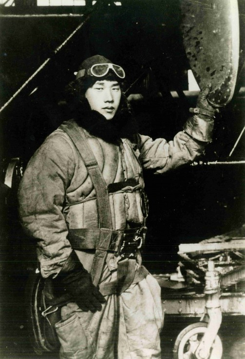 Nobuo Fujita in flight gear